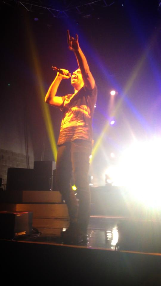 Elliot John Gleave, also known as Example. Photo taken during the February/March UK Arena Tour 2013 at Bournemouth BIC (11th of February)